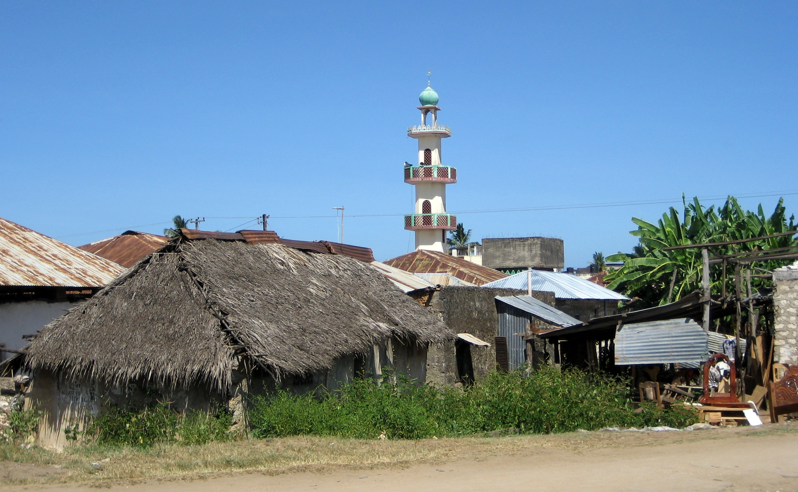 A view of the central part of Malindi